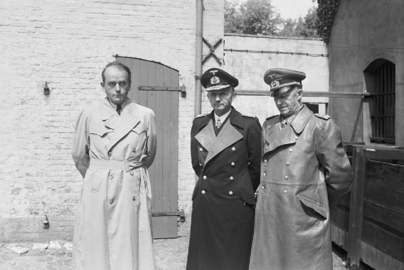 Nazi Personalities Albert Speer 1905 - 1984): Speer with Doenitz and Jodl after his arrest by the British Army. - Seems to be in Flensburg.